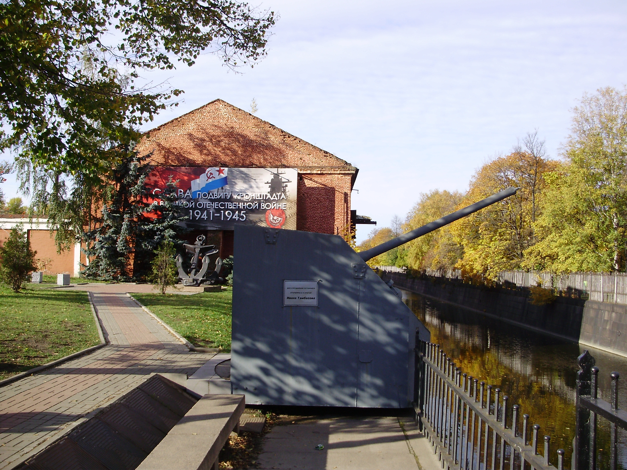 Ivan Tambasov Naval Gun. Kronstadt